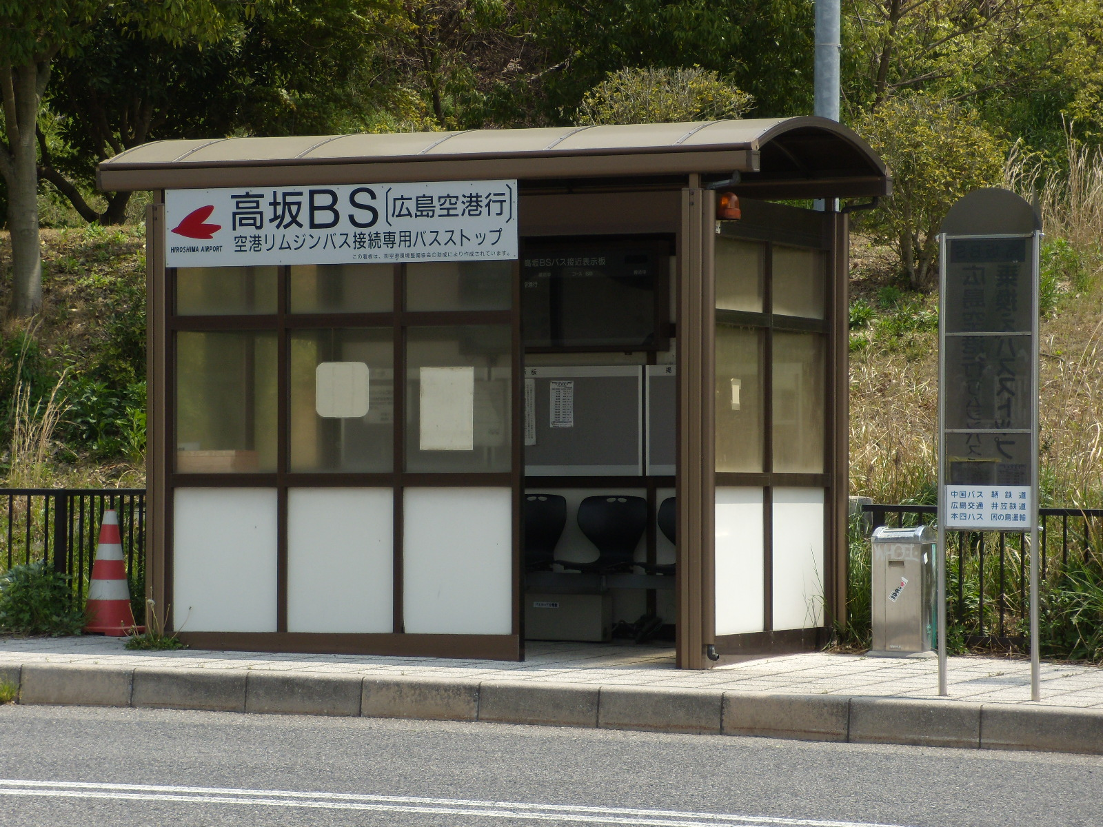 Takasaka Bus stop at Takasaka Parking Area,Sanyo Expressway.It is here for transfar to Hiroshima Airport from Bingo area,Hiroshima Prefecture